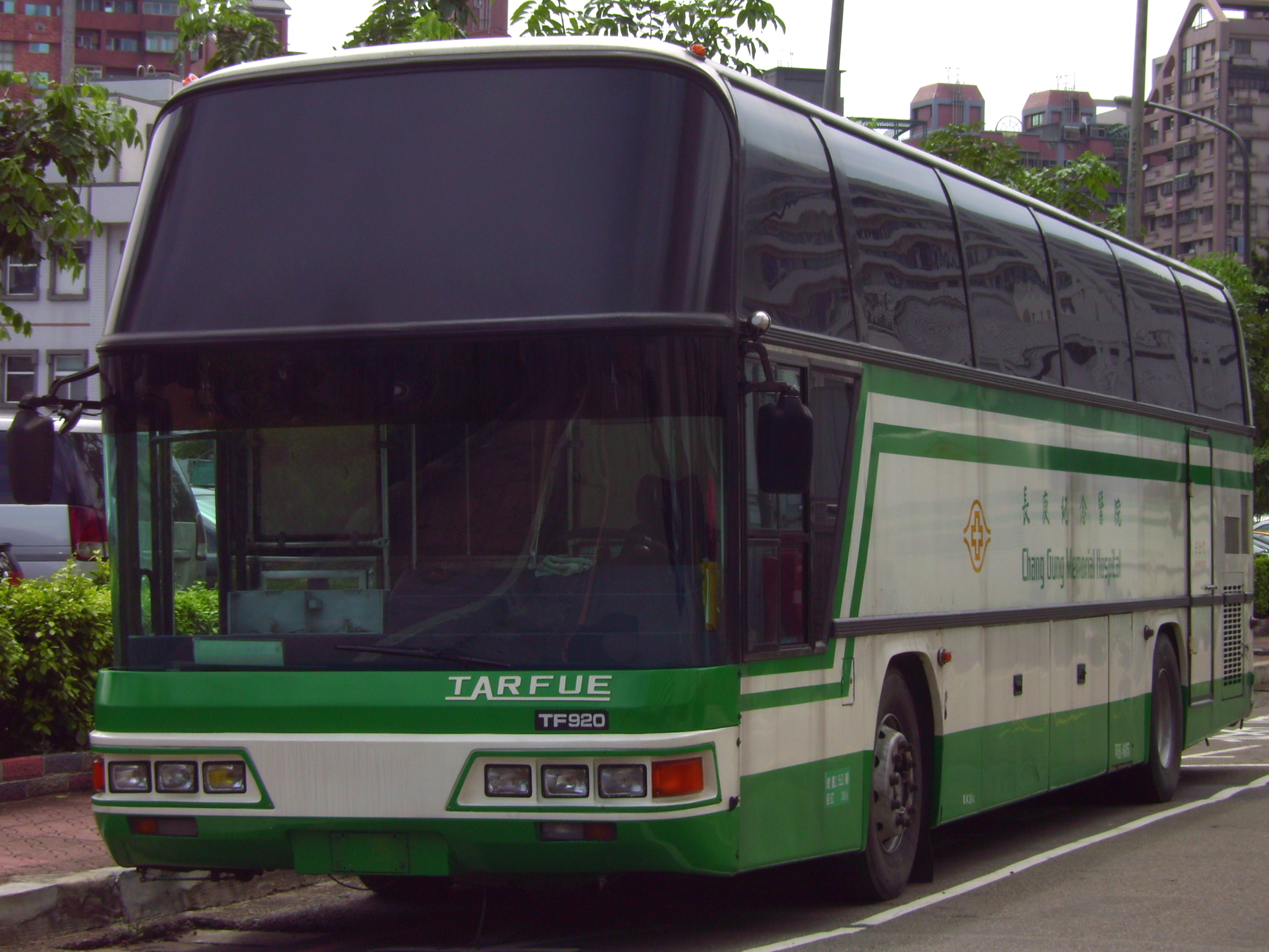 An old Scania K113 bus WH-605 is formerly operated by Formosa Fairway Corporation.